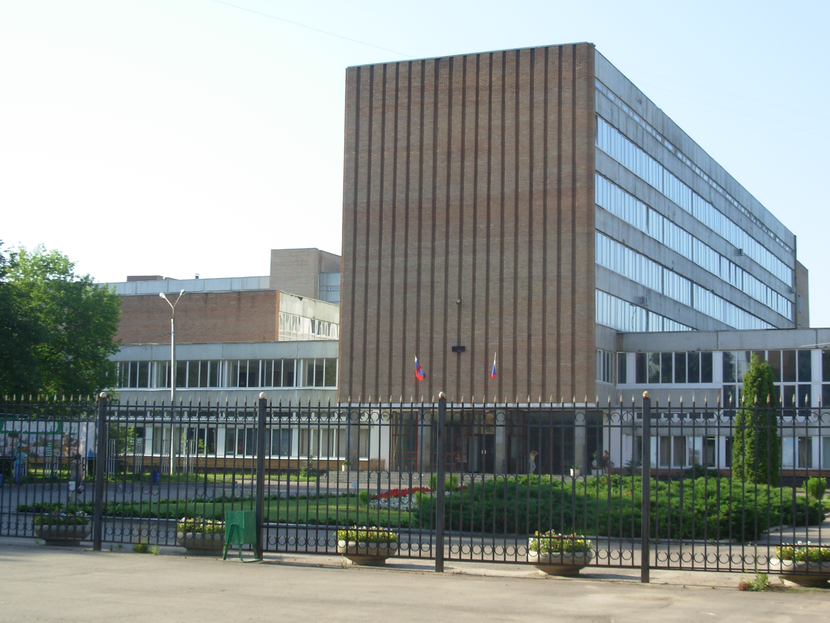 The Educational Laboratory Building No.1 (ULK-1) of the Bauman Moscow State Technical University branch in Mytischi (Moscow State Forest University), with the Educational Laboratory Building No.2 (ULK-2) in the background.